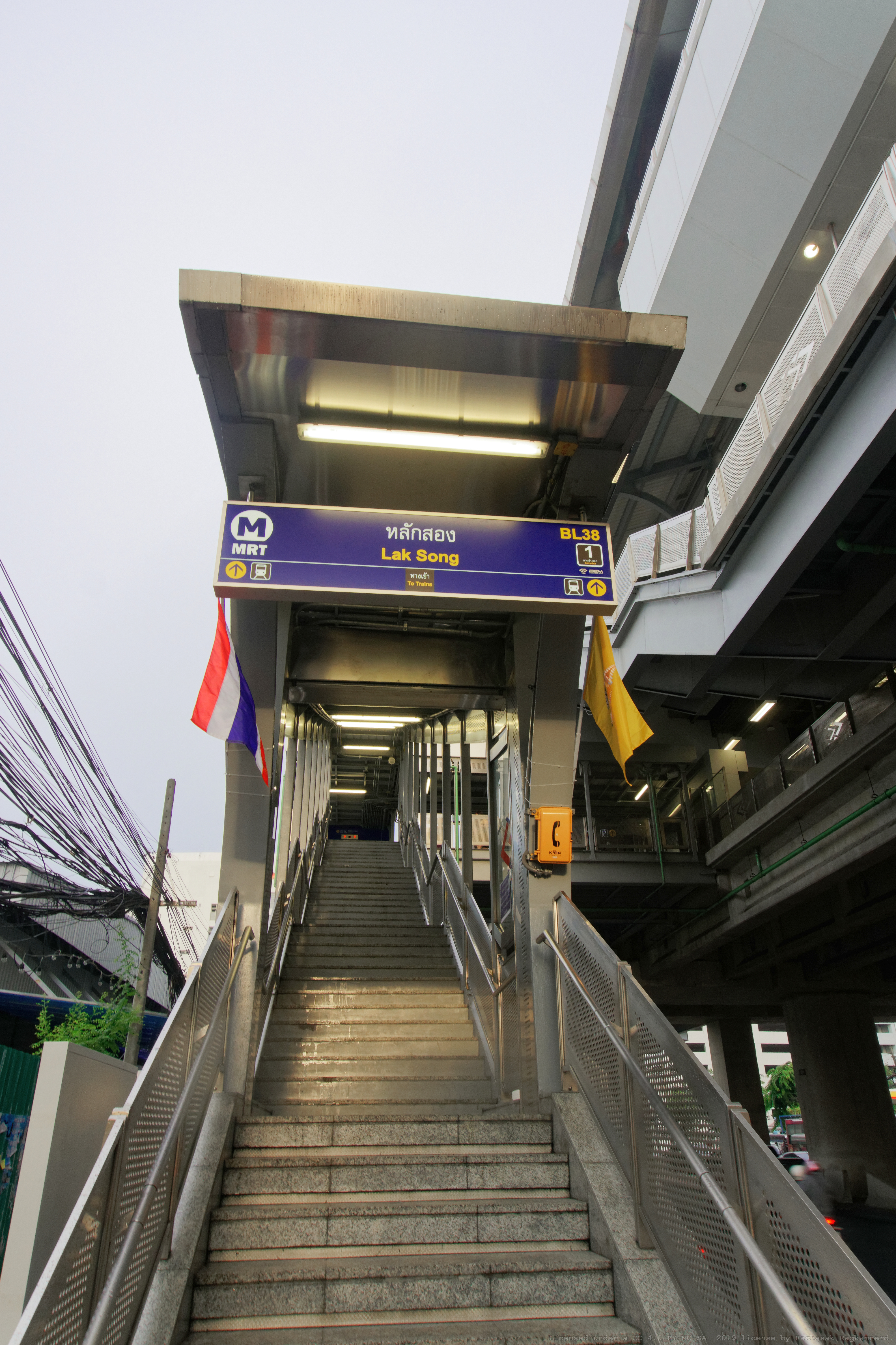 MRT Lak Song station: Exit #1